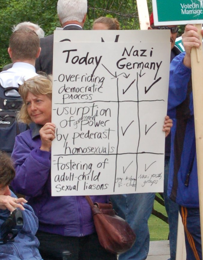 Demonstration of same sex marriage oponents on the other side of the street from the Boston Statehouse (Massachusetts).This woman was subsequently arrested for slapping a total stranger during an argument. Source: Christina Wallace: Opponents: Beacon Hill ‘sold us out’, 2007-06-16Sign compares gay activists today with Nazi-Germany in the 1930s. Stated homophobis points are: over-riding democratic process usurption of government power by pederats, homosexuals fostering of adult-child sexual liasons (gay-lesbian-bi clubs vs. Nazi youth groups)